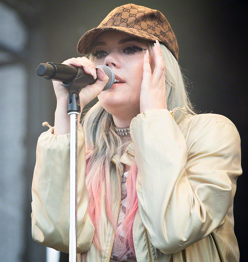 Little Jinder at the minor stage during Stavernfestivalen in Stavern on 07. July 2016. Lineup:Astrid Maria Josefine Jinder (vocal)Unidentified (drums)Unidentified (keyboard)Unidentified (vocal)Unidentified (vocal)